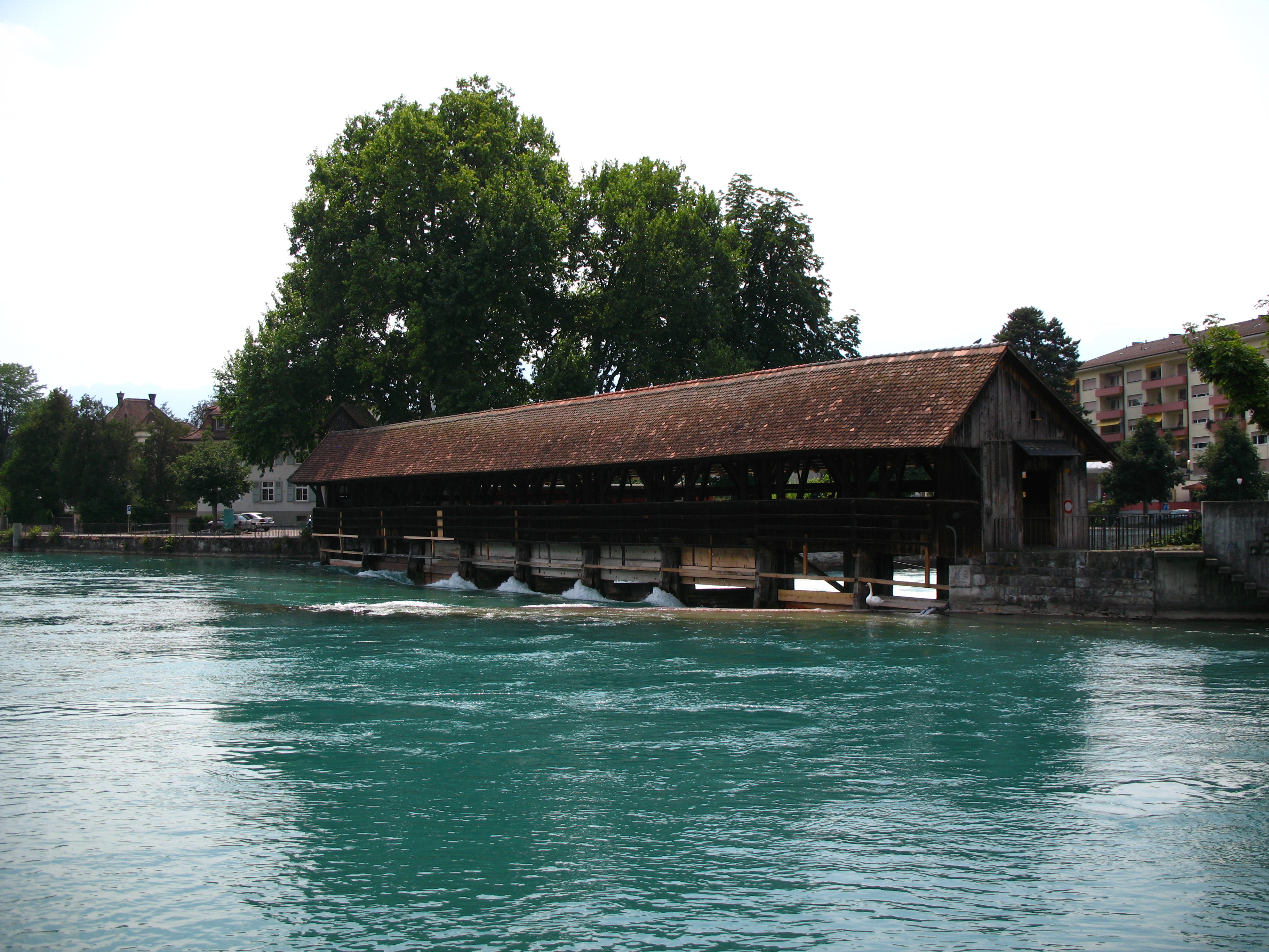 Upper Lock, Thun, Switzerland